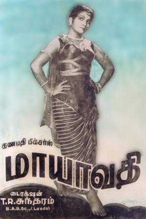 Advertising poster of Tamil-language film Mayavathi of 1949